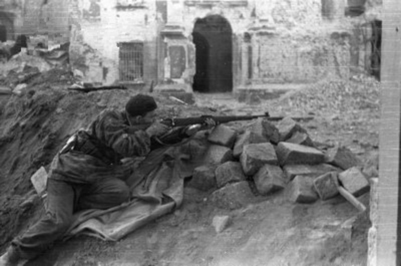 WarsawUprising: Soldier from "Anna" company of batallion "Gustaw" in the trench at 13/15 Długa Street with German Mauser Karabiner 98k.